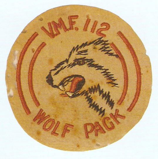 Scanned from *Millstein, Jeff. (1995). United States Marine Corps Aviation Squadron Unit Insignia, 1941 - 1946. Turner Publishing Company. ISBN 1-56311-211-6.